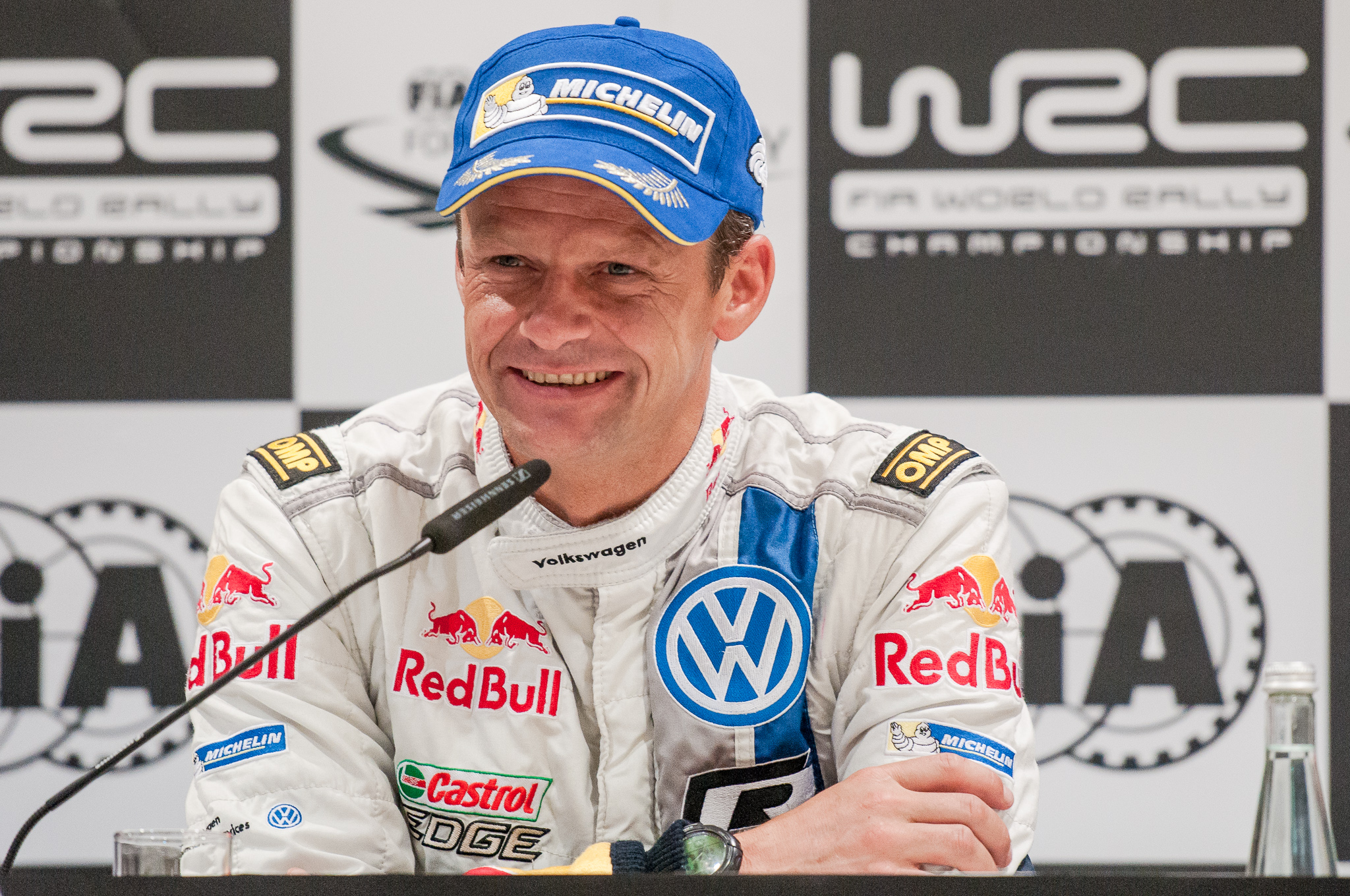 ADAC Rallye Deutschland 2014,FIA,FIA World Rally Championship,Motorsport,Ola Floene,Pressekonferenz,Rally,Rallye,Volkswagen Motorsport,WRC